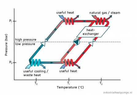 Kruženje medija u apsorpcijskoj dizalici topline